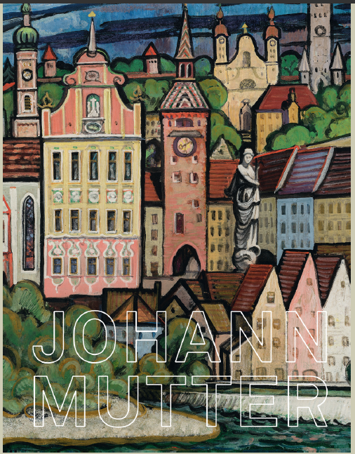 Cover of the Johann Mutter book